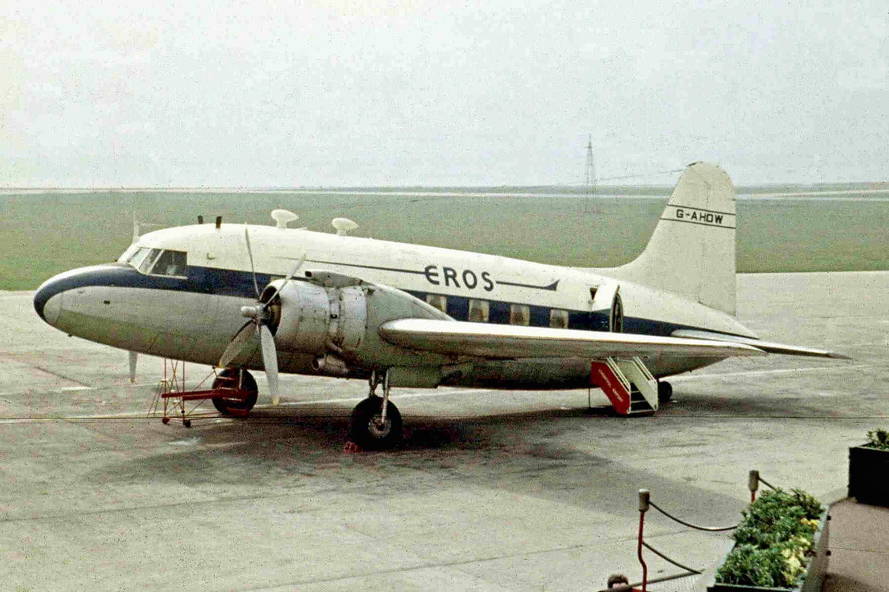 A picture of an airplane (name of it is on the file name).